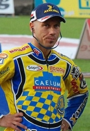 Nicki Pedersen in season 2011